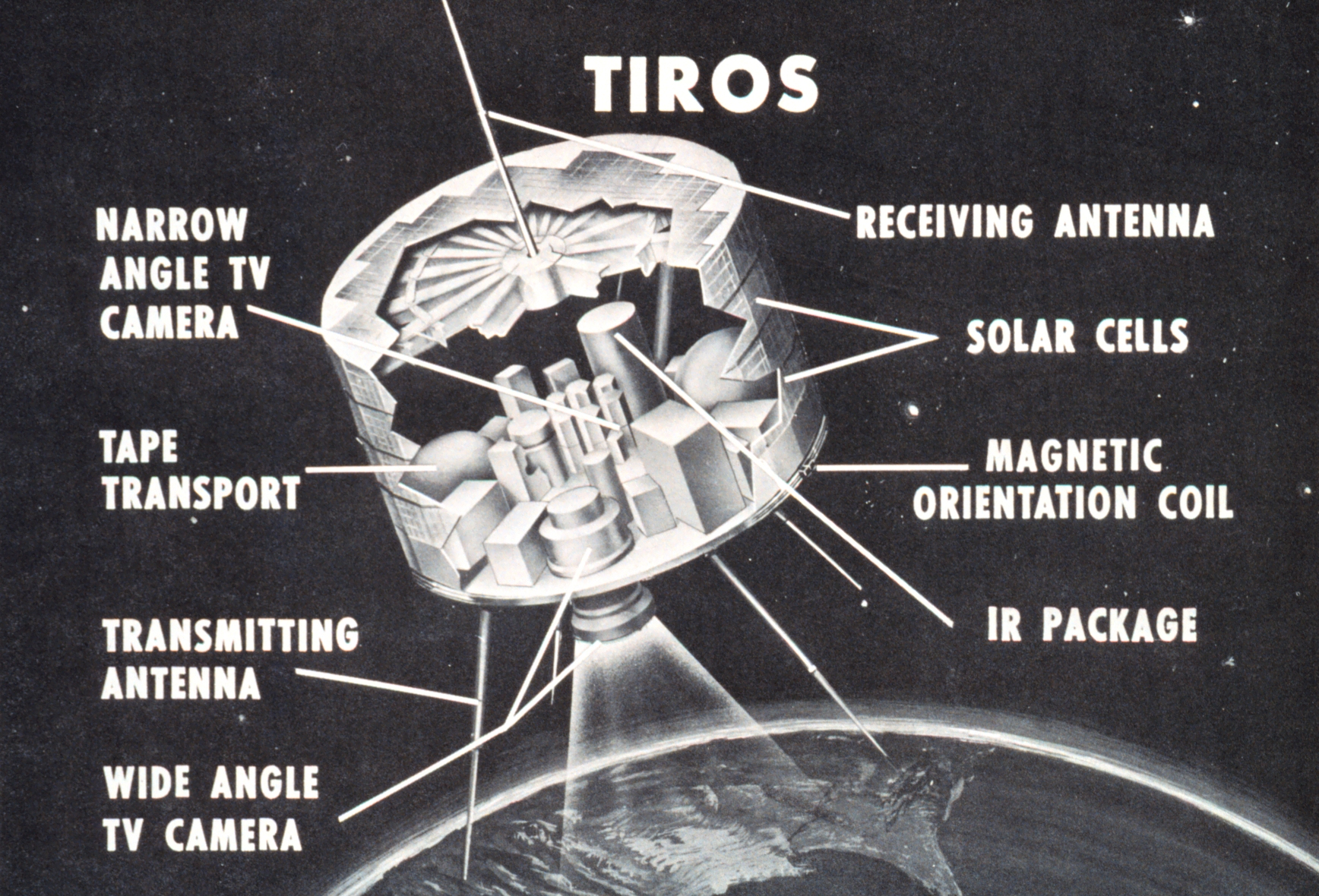 Arrangement of components on TIROS 7 baseplate. In: "Plan for a National Meteorological Satellite System", produced by the National Coordinating Committee for Aviation Meteorology, April 1961